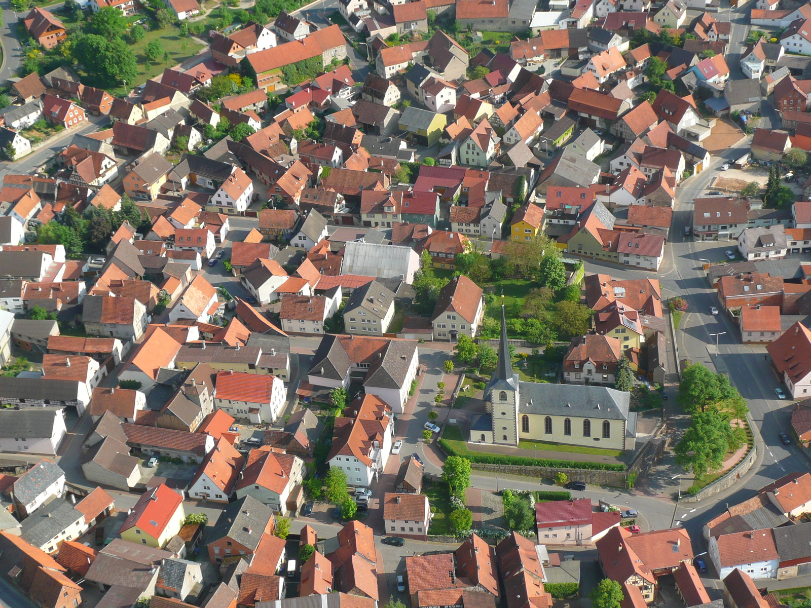 Aerial view of Steinfeld (Lower Franconia), Germany. Historical center with church